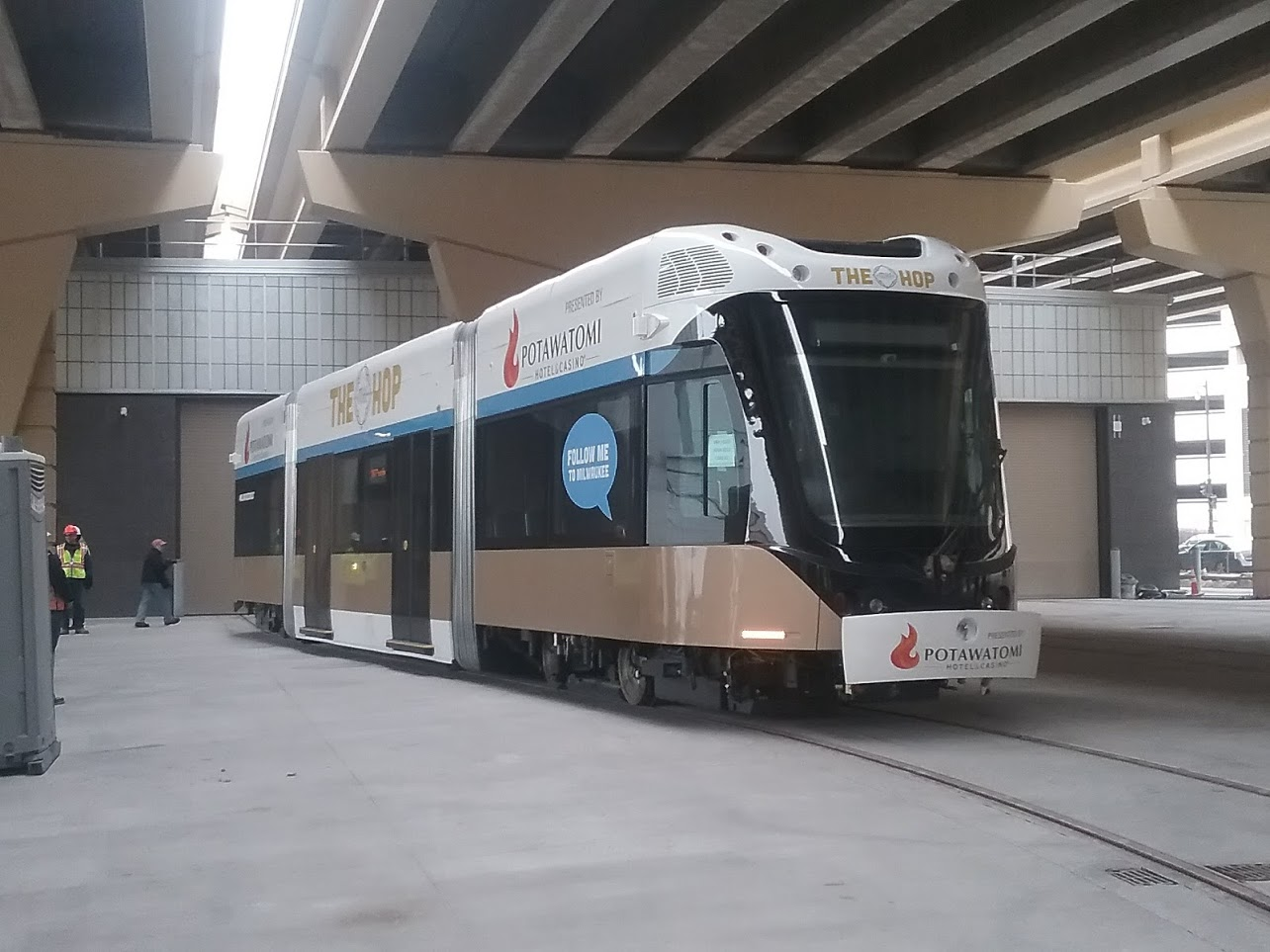 The first Milwaukee Streetcar vehicle, car number 01